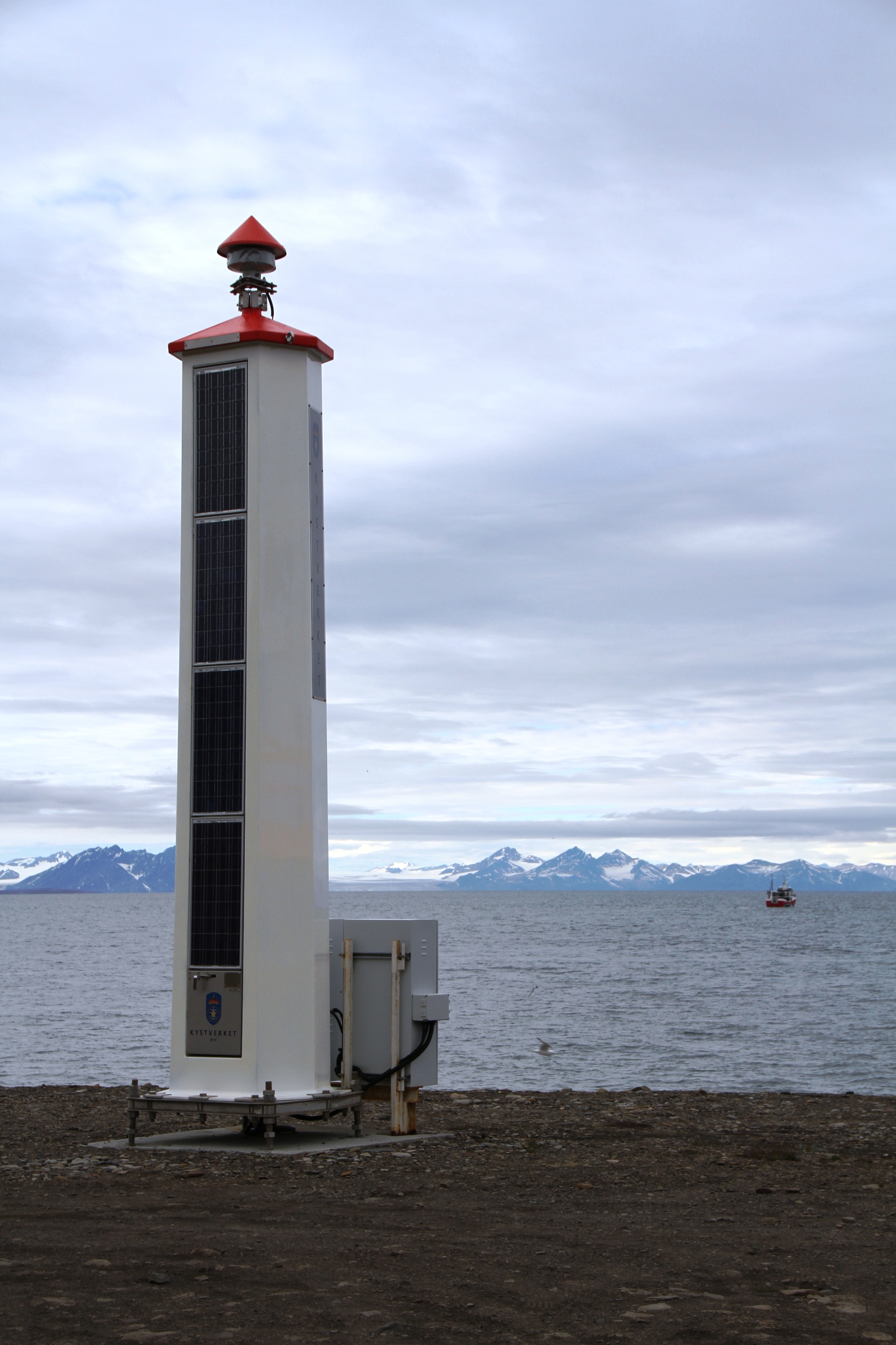 Vestpynten fyr (lighthouse), originally from 1933, later renewed. Hotellneset west of Longyearbyen, Svalbard.